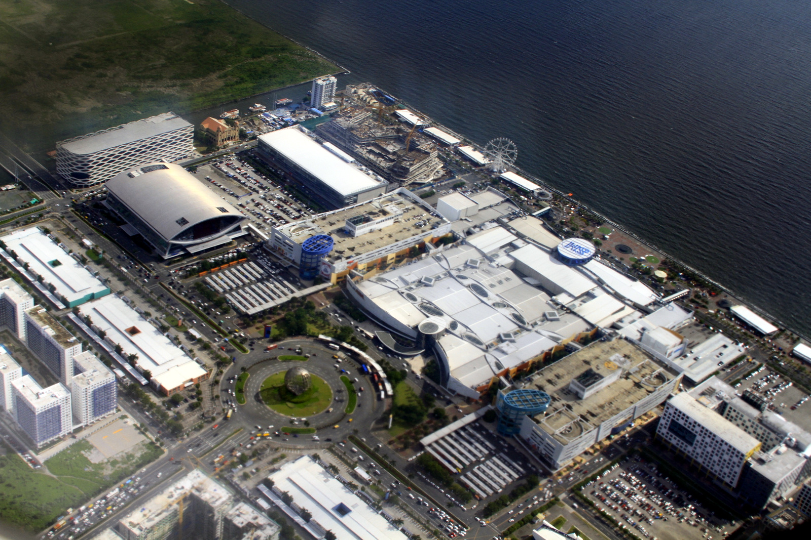 View of SM Mall of Asia Complex from the airplane